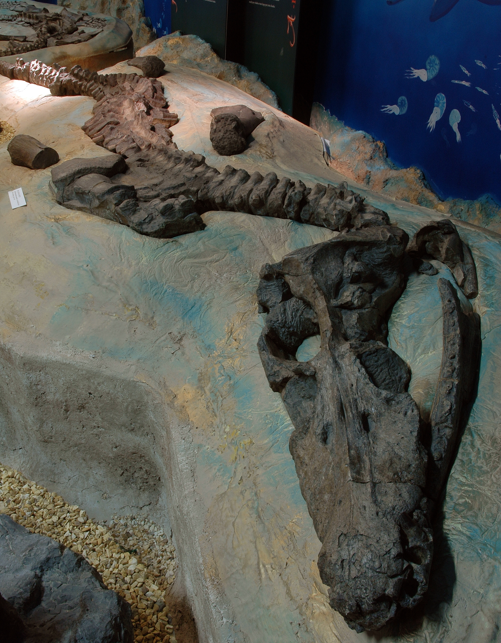 Large part of cranial and post cranial skeleton. Approximately 6 m long. In 12 loose blocks. This is the Holotype for R. zetlandicus, discovered at Lofthouse Alum Quarry, Loftus, North Yorkshire